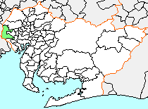 Position of Aisai city (愛西市), Aichi, Japan